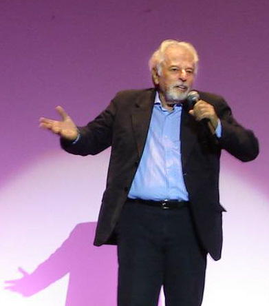 Alejandro Jodorowsky in Sitges, Spain.